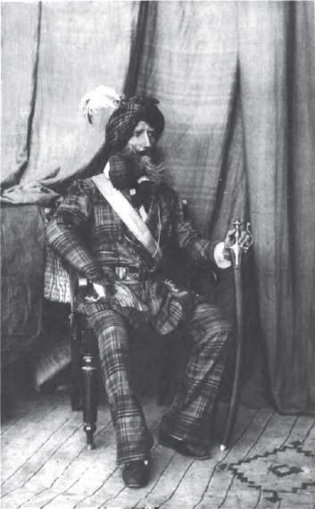 Alexander Gardner at the age of 79.